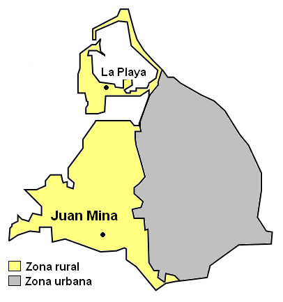 Barranquilla rural urban areas